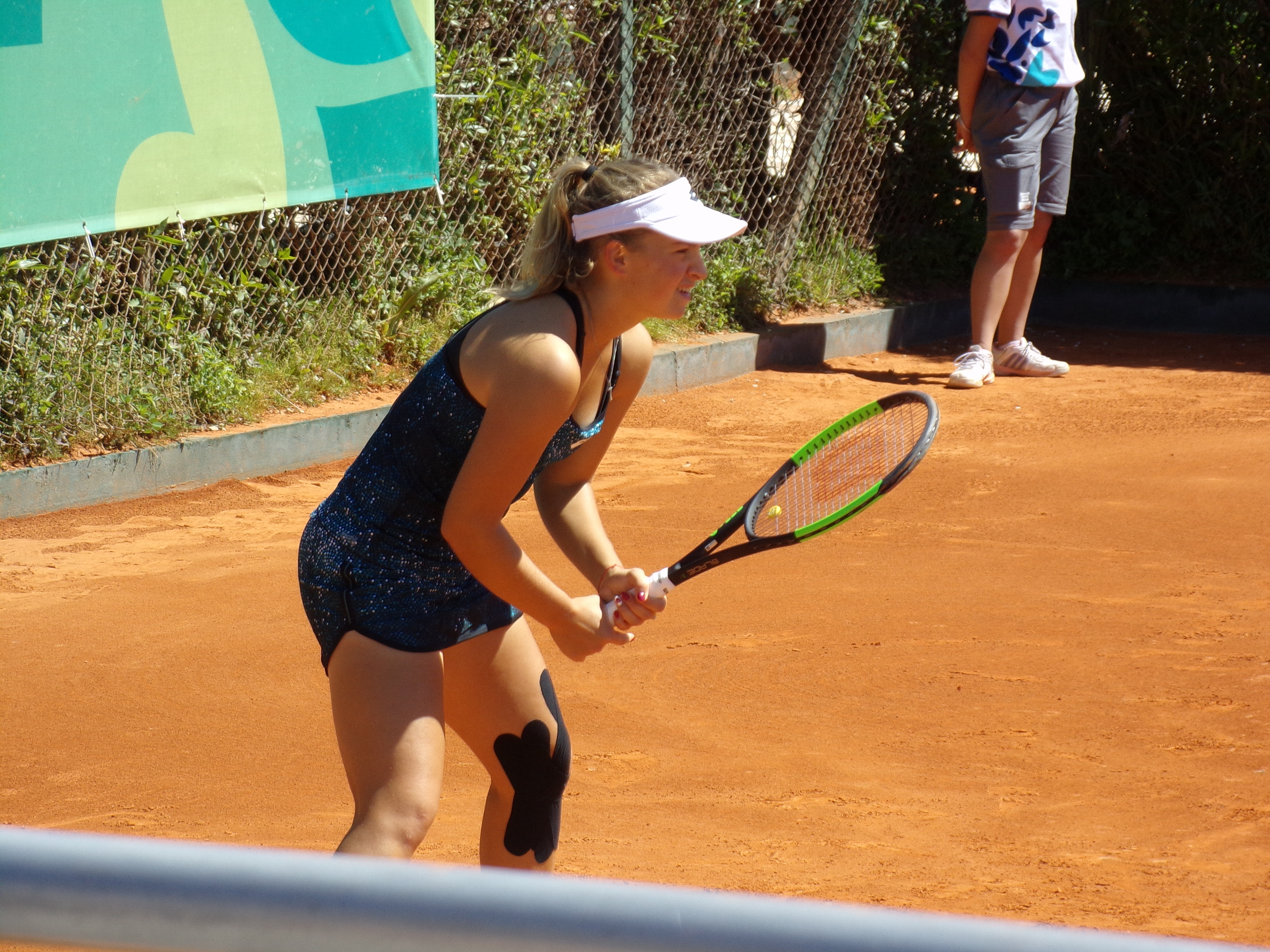 KANAPATSKAYA Viktoryia (Belarus) and VISMANE Daniela (Latvia)